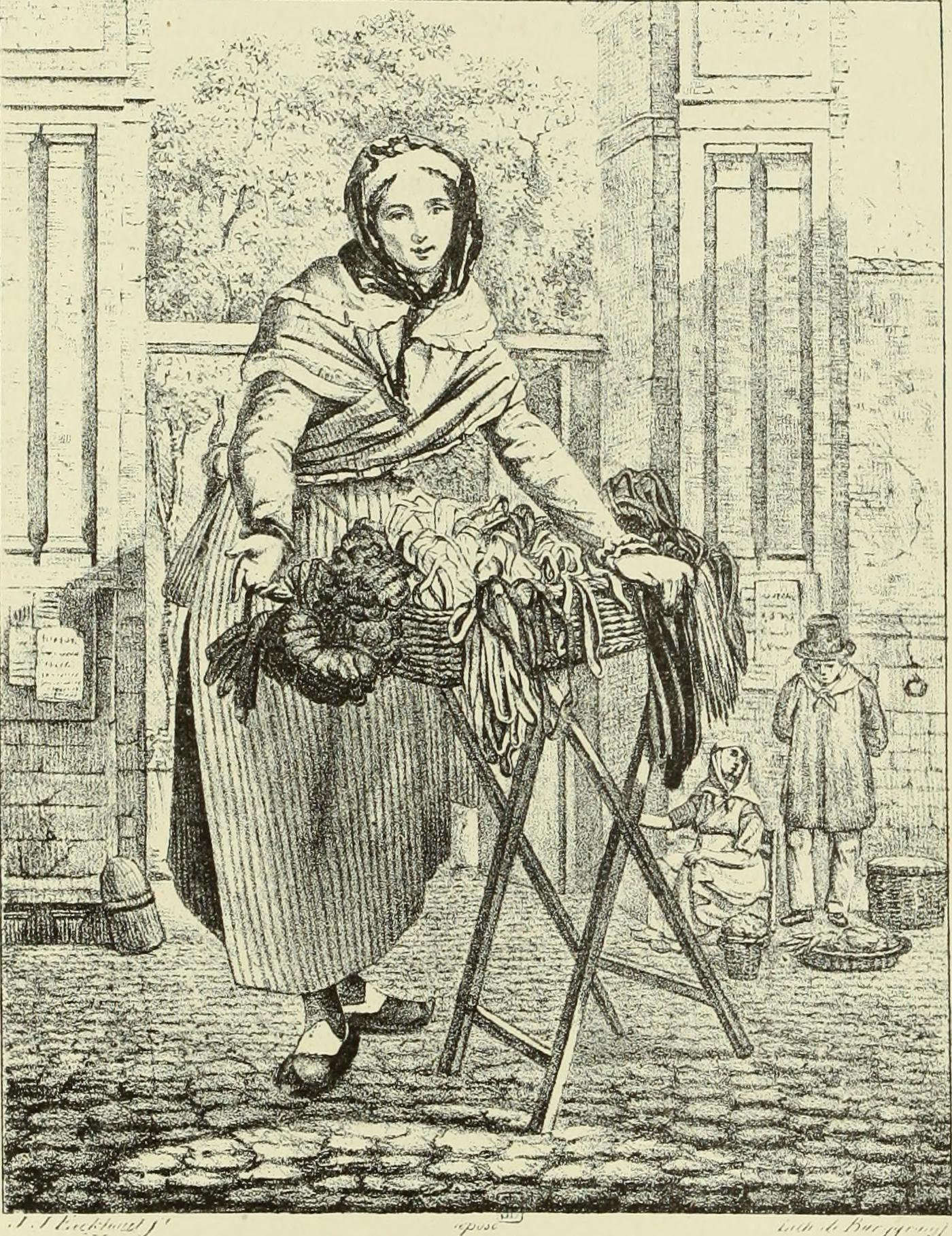 Title: Bruxelles à travers les âges Year: 1884 (1880s) Authors: Hymans, Louis Salomon, 1829-1884 Hymans, Henri, 1836-1912 Hymans, Paul, 1865-1941 Subjects: Publisher: Bruxelles : Bruylant-Christophe Text Appearing Before Image: bac » Sainte-Catherine. Il décida également laconstruction, sur lemplace-ment du bassin, dune églisenouvelle, sur la propositiondu conseil de fabrique din-tervenir à concurrence dunesomme de 100,000 fr., etqui offrit en outre les ter-rains occupés par lancienneéglise. La Société Géné-rale, de son côté, intervintdans les dépenses pour100,000 francs. Le décret de reconstruc-tion est de i852. En i853,les fondations furent éta-blies et le 26 septembre 1804, le duc et la duchesse de Brabant posèrent la premièrepierre de lédifice. La vieille église navait, au surplus, aucun mérite artistique ou archéologique.Cétait une modeste chapelle, de fort antique origine, transformée et dénaturée parde nombreuses et maladroites additions. On y voyait une belle toile de De Crayer,représentant Sainte Catherine reçue au ciel et le tombeau du janséniste Arnaud, quiy avait été inhumé le g août 1694. Elle subsiste encore en partie, attendant dannée en année une démolition Text Appearing After Image: Marchande de rubans et vue de lentrée du Marche au-Beurre.Fac-similé dune lithographie deJ.-J. Eeckhout.